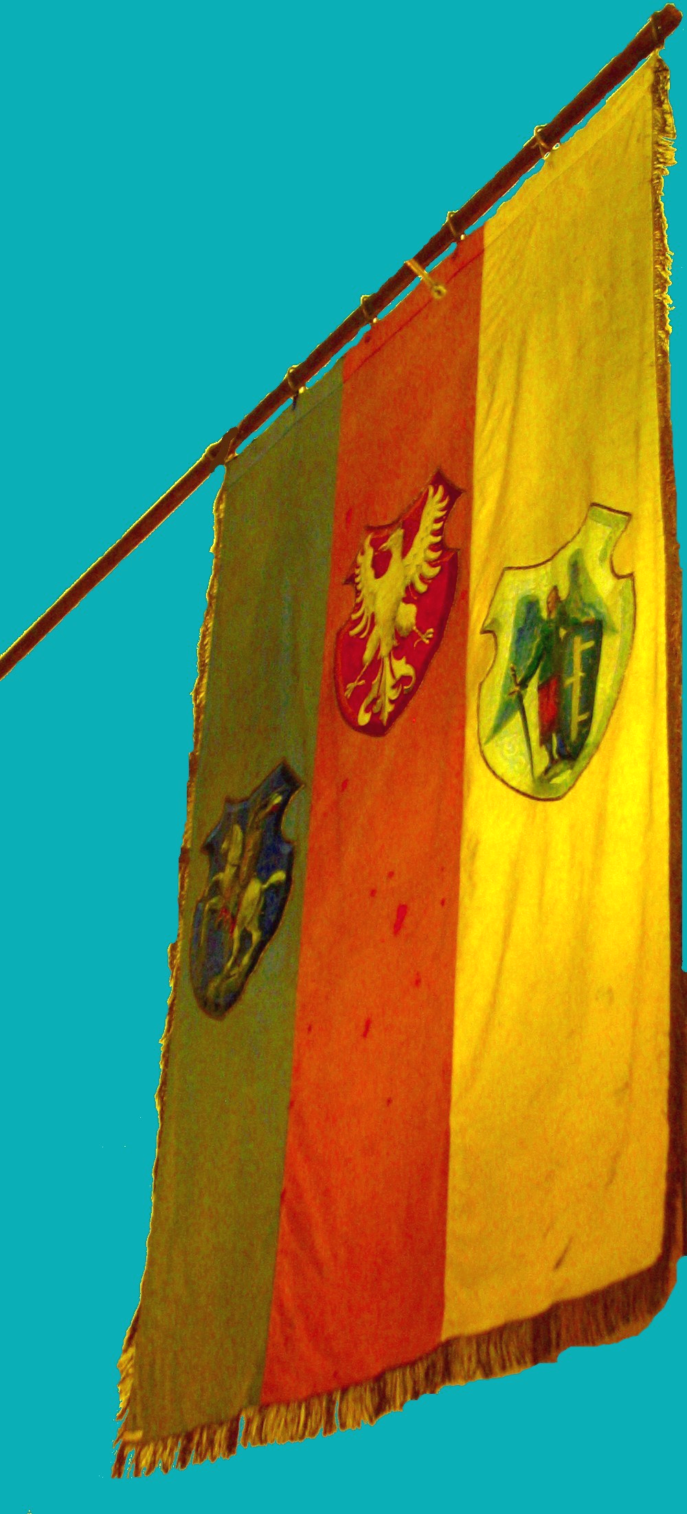 Flag of Polish January Uprising 1863 author:User:Mathiasrex Maciej Szczepańczyk